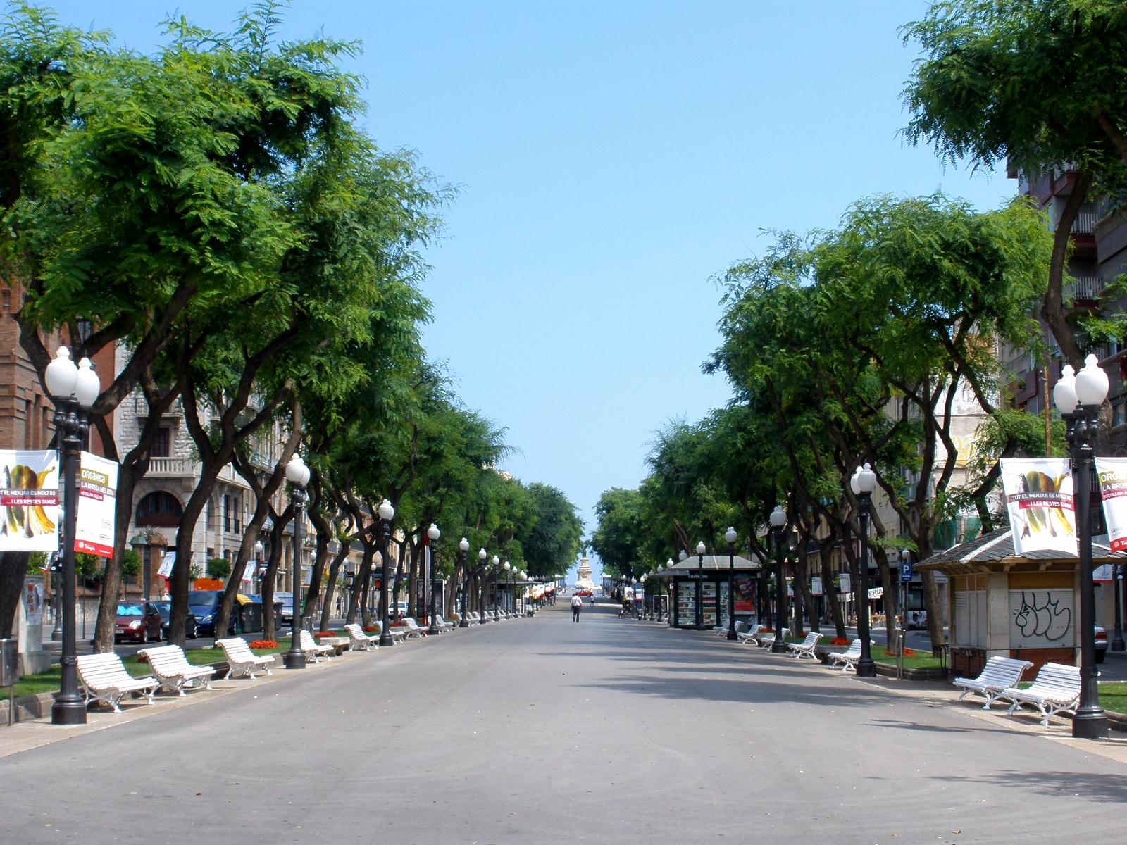 Rambla Nova de Tarragona